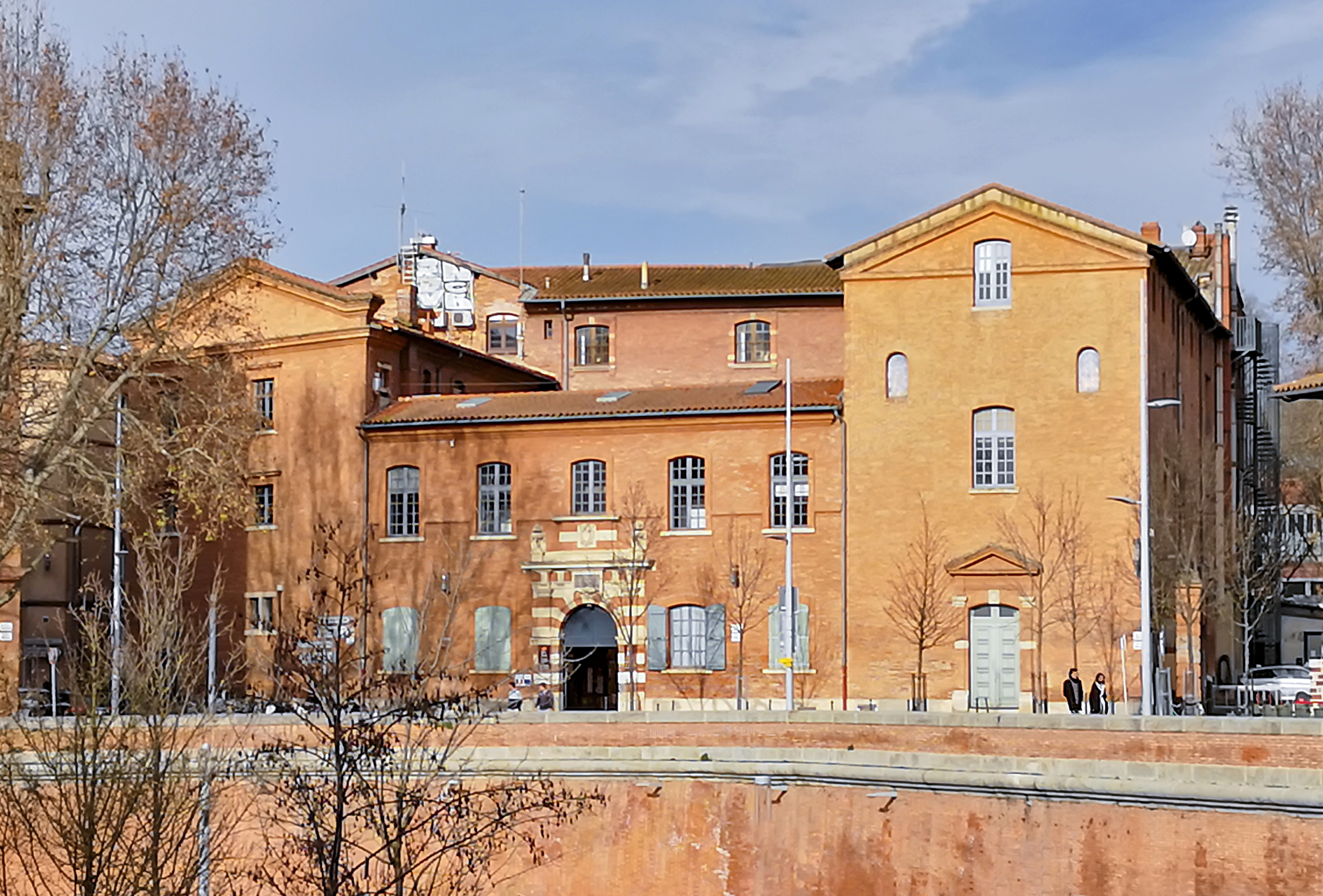 17 Place de la Daurade in toulouse. Built in 1613 as a novitiate of the Jesuits until 1667, then the Mission's seminary until 1762 and the Mission barracks until the end of the 18th century, the Lakanal primary school was created in 1886.